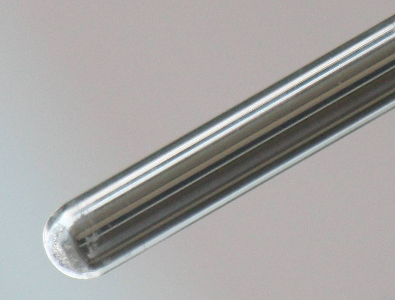 silvermirror inside a test-tube (Tollens' reagent)